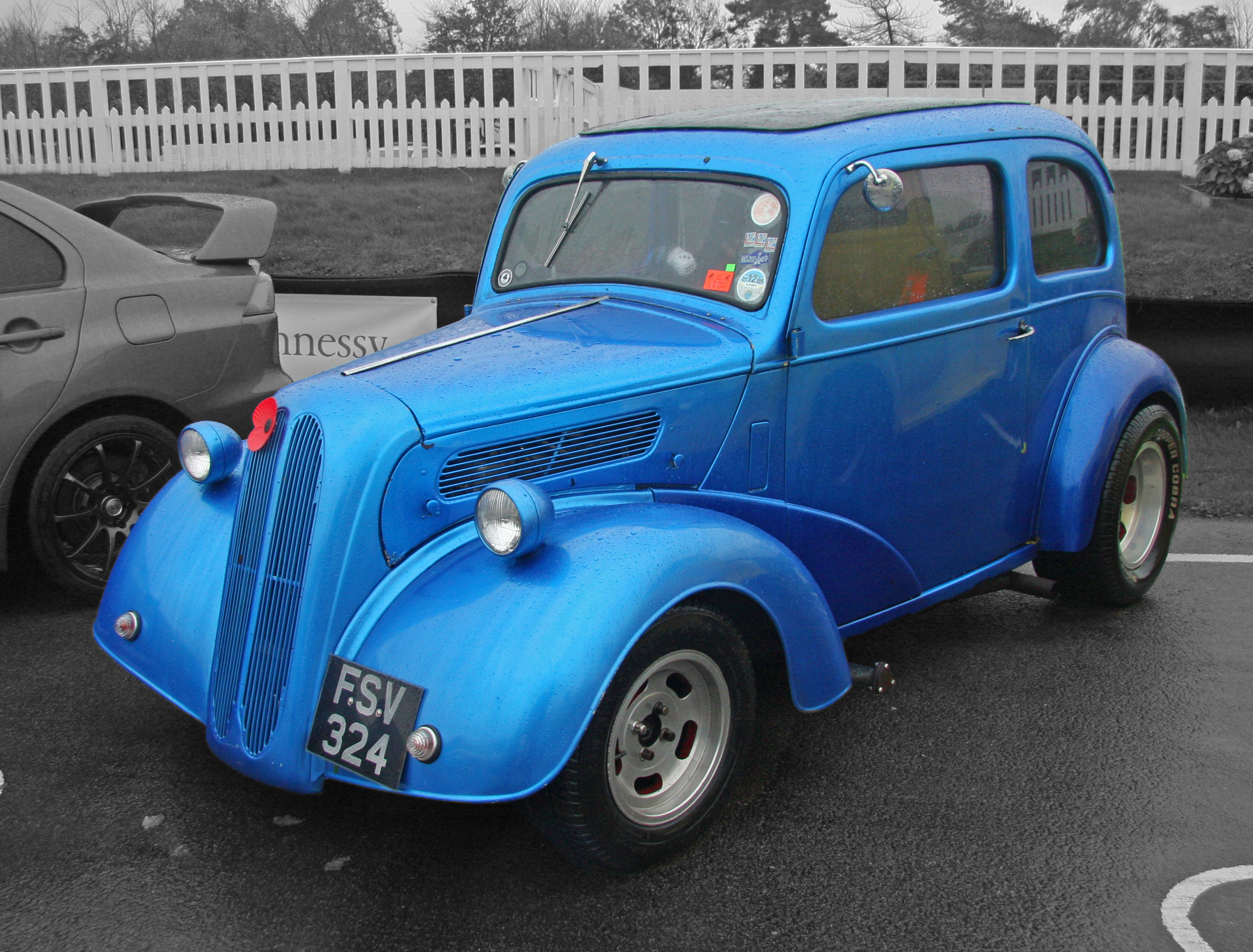 Ford Popular hot rod